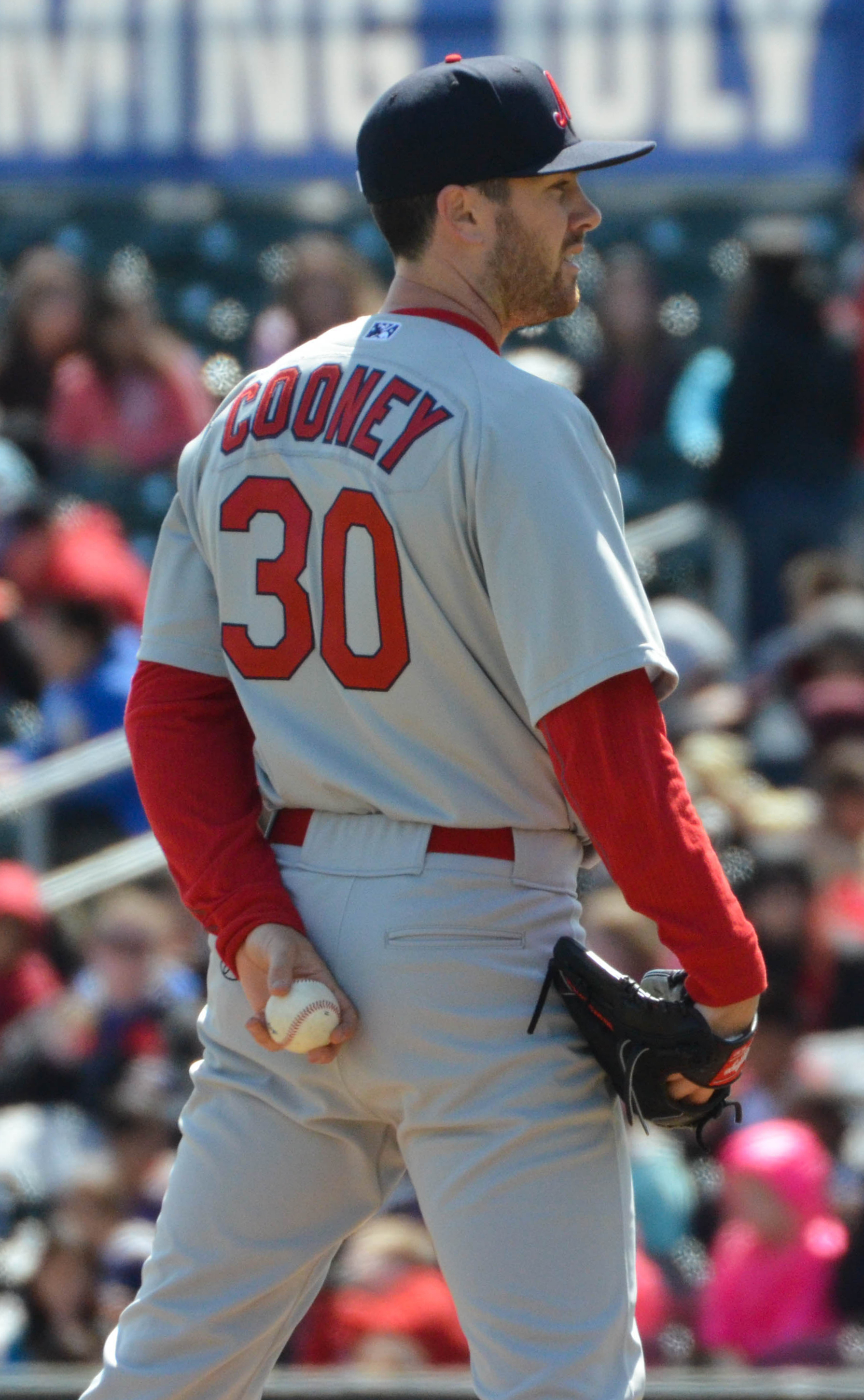 Tim Cooney